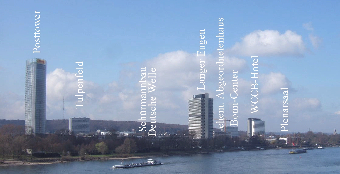 The Federal Quarter in Bonn with descriptions of the buildings.